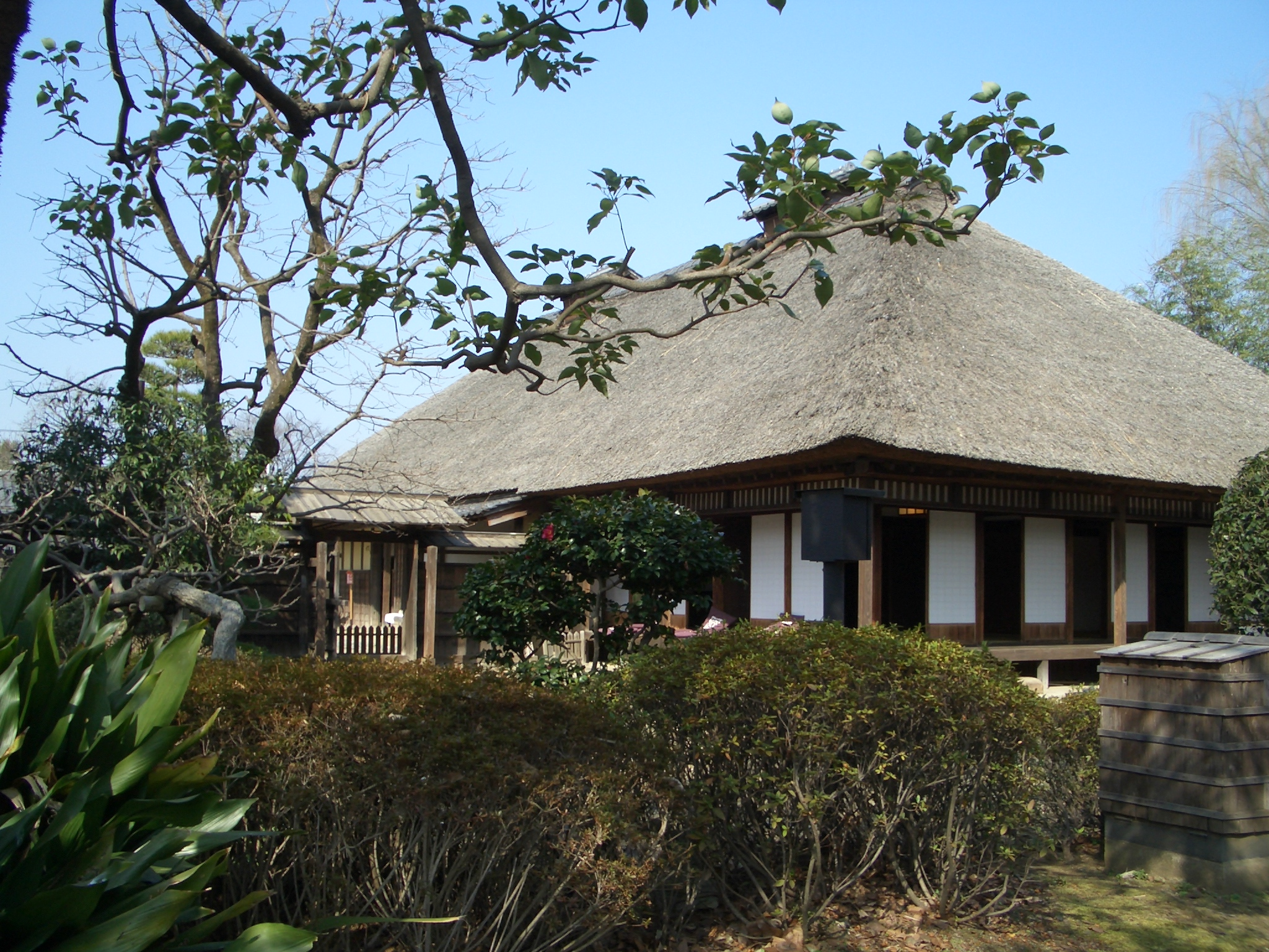 Old Main House of the Ando Family in Jidayubori Park's Old Farmhouse Garden